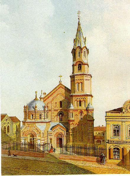 Orthodox Church of St. Nikolai after the reconstruction in 1864. Lithograph. From P. Batiushkov's Album